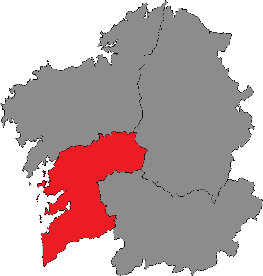 Galician Parliament district of Pontevedra.